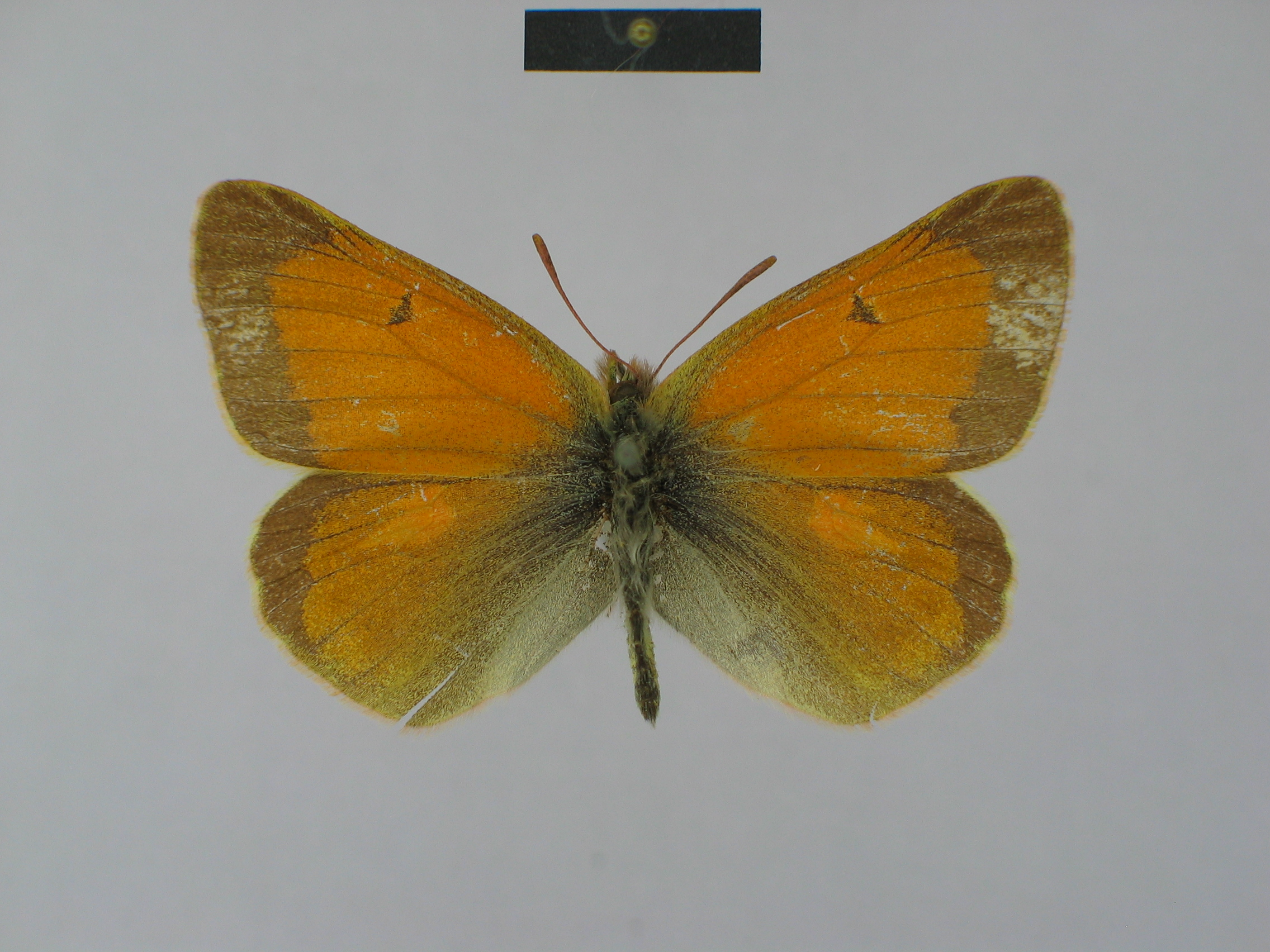 Specimen of the species Colias leechi from the collection of the Zoologische Staatssamlung München; ♂ dorsal side; scalebar=1 cm